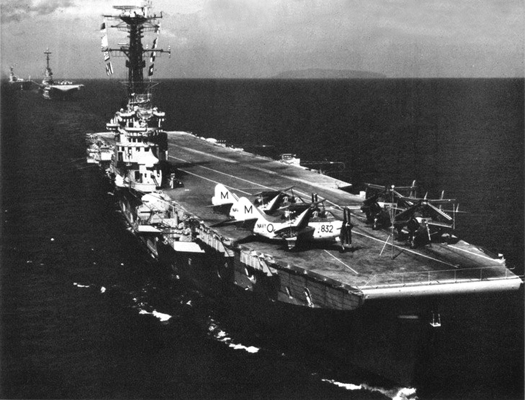 The Royal Australian Navy aircraft carrier HMAS Melbourne (R21) leads USS Bennington (CVS-20) and HMS Ark Royal (R09) during the SEATO exercise "Sea Devil", in April-May 1962. On deck are Fairey Gannet AS.1 from 816 Squadron.